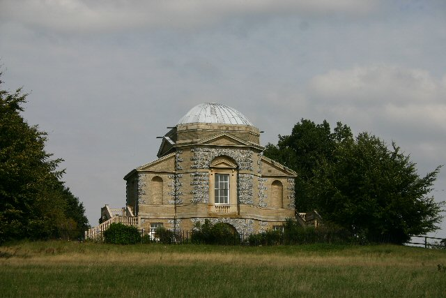 The Temple, Euston Park. The Temple was built in the late 17th century as a banqueting hall by the architect William Kent, for Lord Arlington, then owner of the Euston estate. It is now a private dwelling.